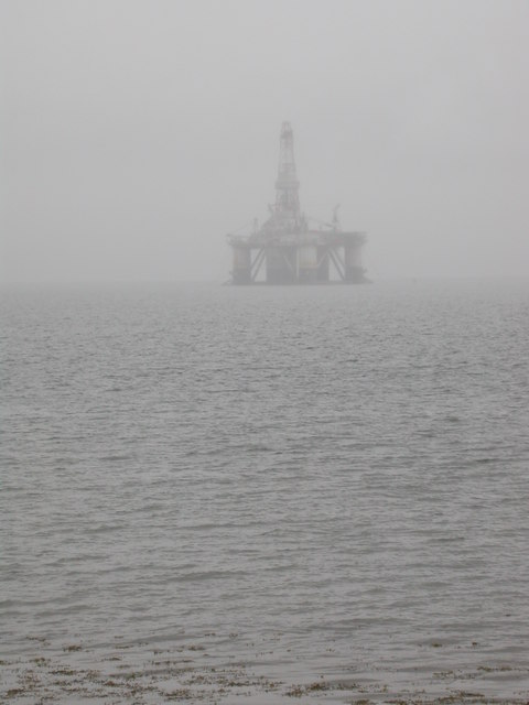 Oil Platform in mist, Cromarty Firth near Rosskeen